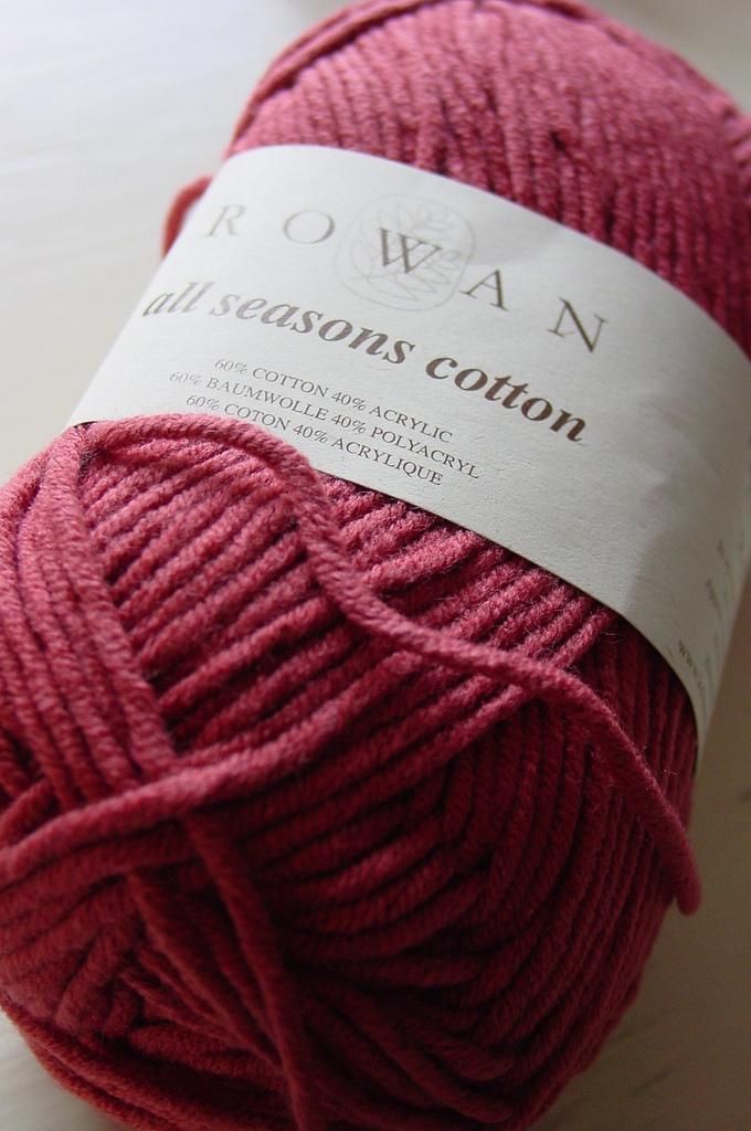 Cotton-acrylic mix red yarn